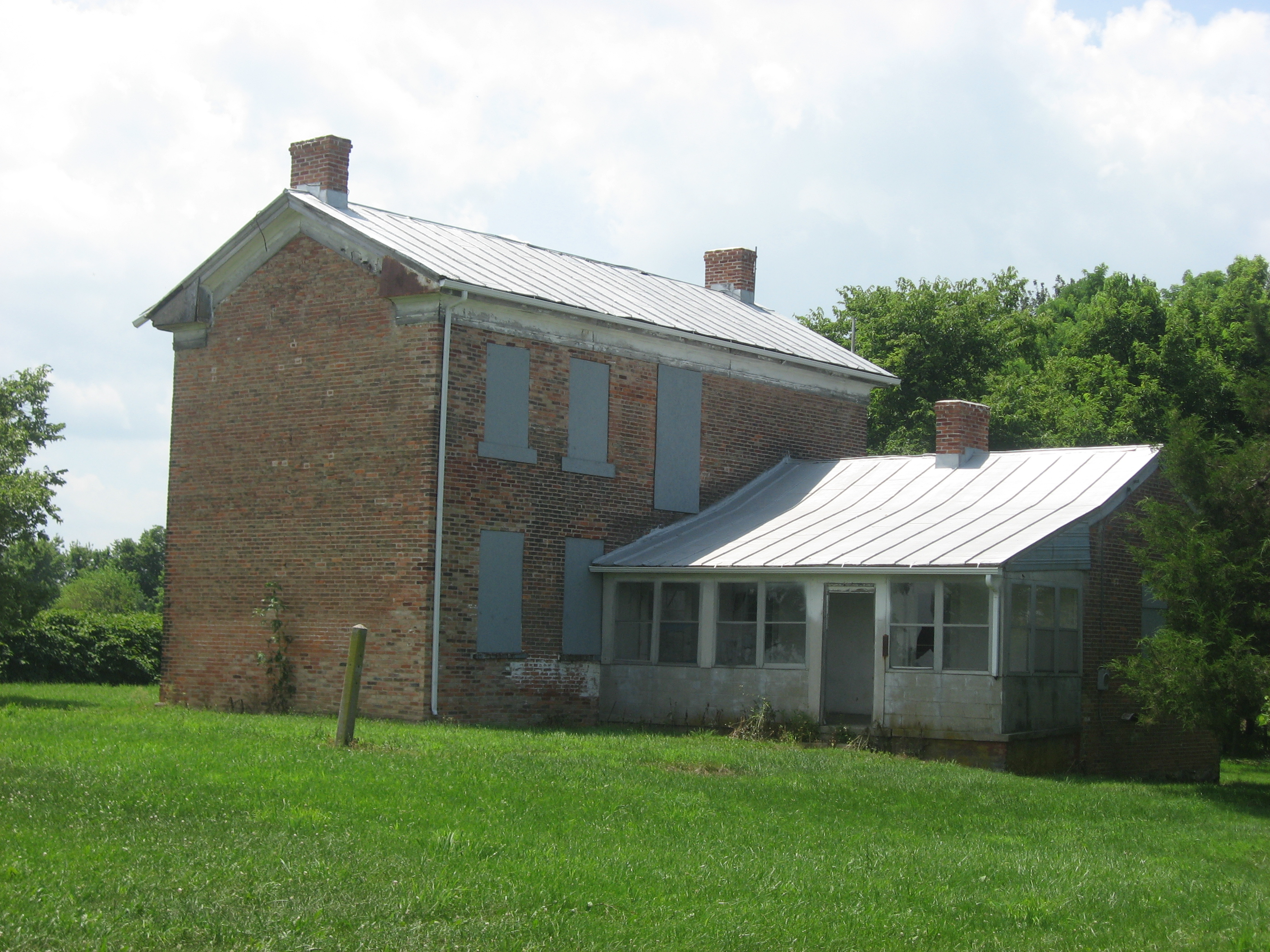 Front of the James and Sophia Clemens Farmhouse, located at 467 Stingley Road northwest of Palestine in Liberty Township, Darke County, Ohio, United States. Together with a nearby barn, the house is listed on the National Register of Historic Places.